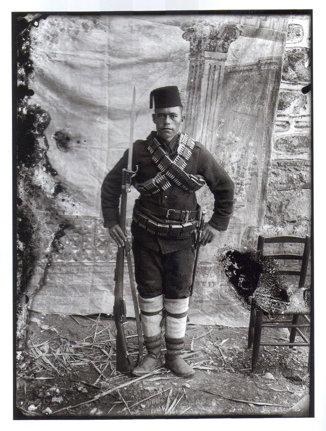 Ottoman rediff (local reservist in the Balkans). He wears a red fez with blue tassel, the 1893 dark blue uniform and peasant socks and shoes. (see Jowett, Philip. Armies of the Balkan Wars 1912–13: The priming charge for the Great War. Men-at-Arms 466. Osprey Publishing. 2011. p. 24. ISBN 9781849084185.)